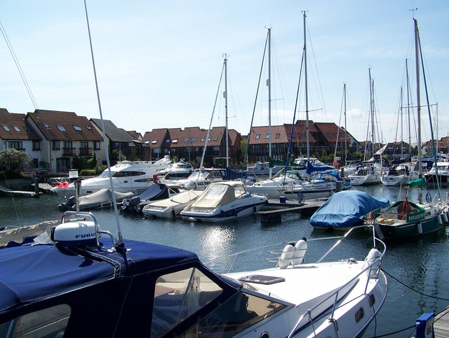 Yachts at Hythe Marina Hythe Marina was the first marina village to be built in the UK.